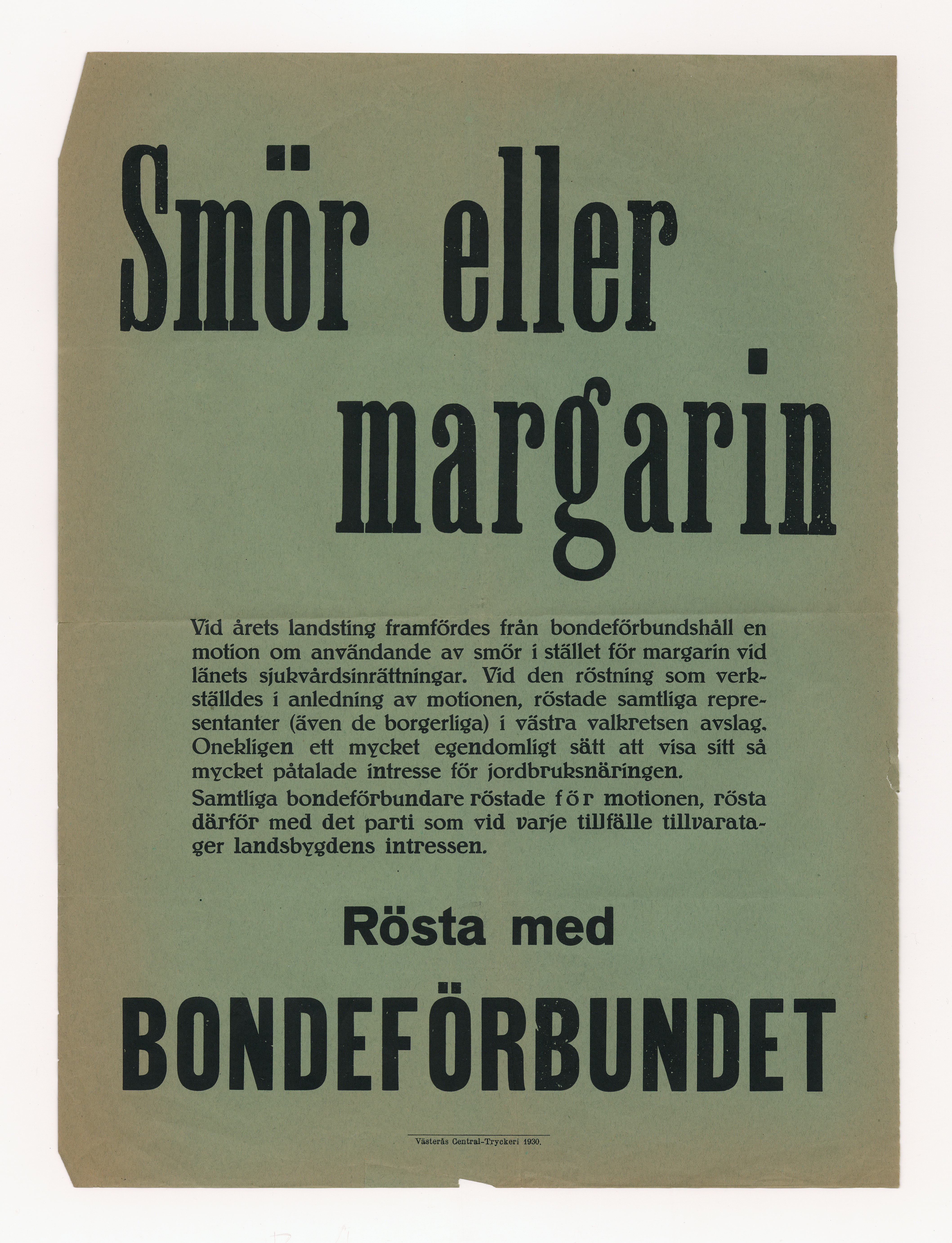 County council election campaign poster for the Swedish Centre Party from 1930. Text: "Butter or margarine". The party's bill that the county council's medical services should only serve butter and not margarine has been defeated by the other parties.